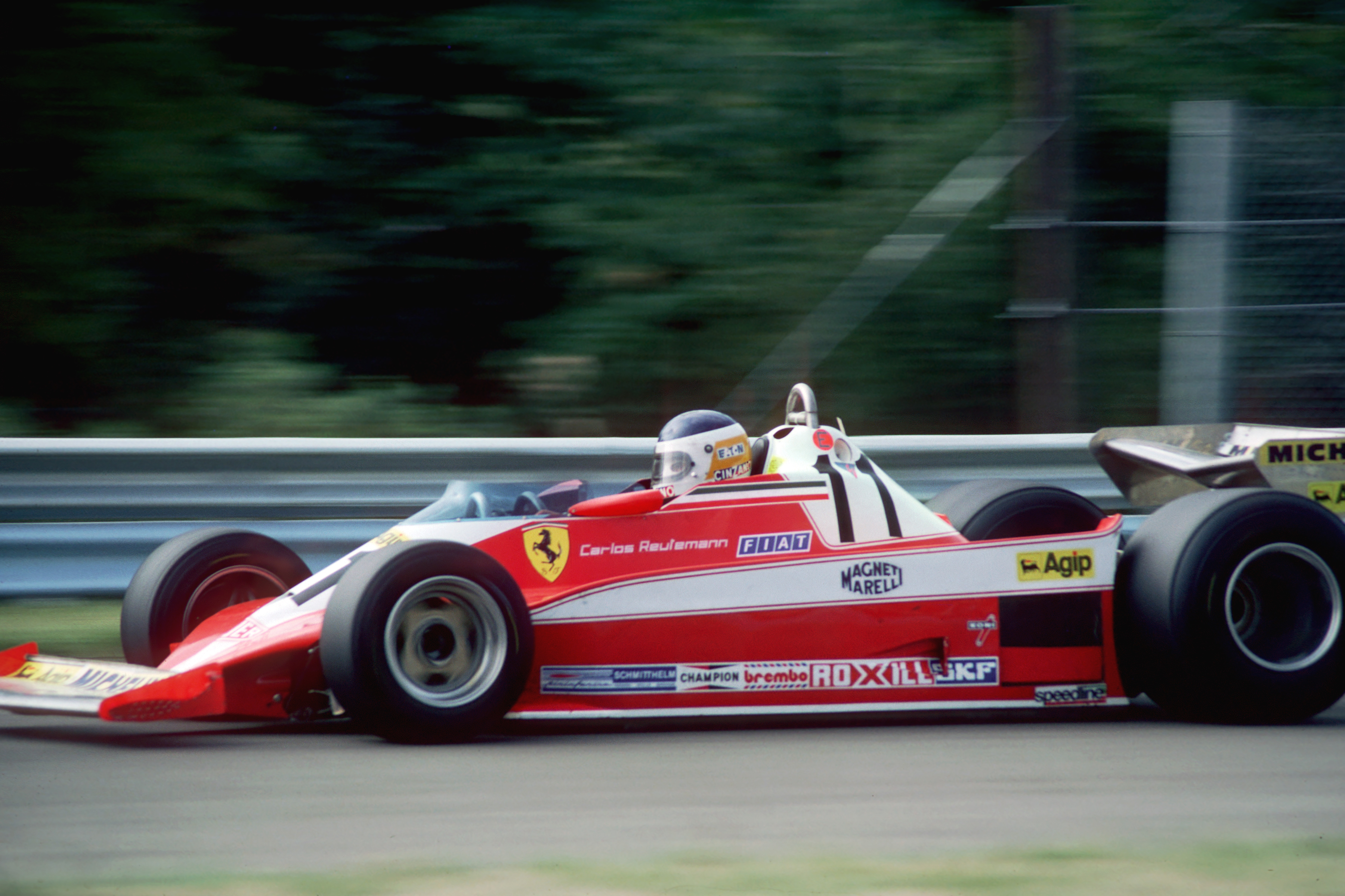 Carlos Reutemann driving his Formula One Ferrari 312T3 on the way to victory in the XXI Toyota United States Grand Prix at Watkins Glen, New York, October 1, 1978. The photo was taken at the exit of the "toe" turn in the southern portion of the track. The image was scanned from the original Kodachrome 64 (Daylight) 35mm film image.